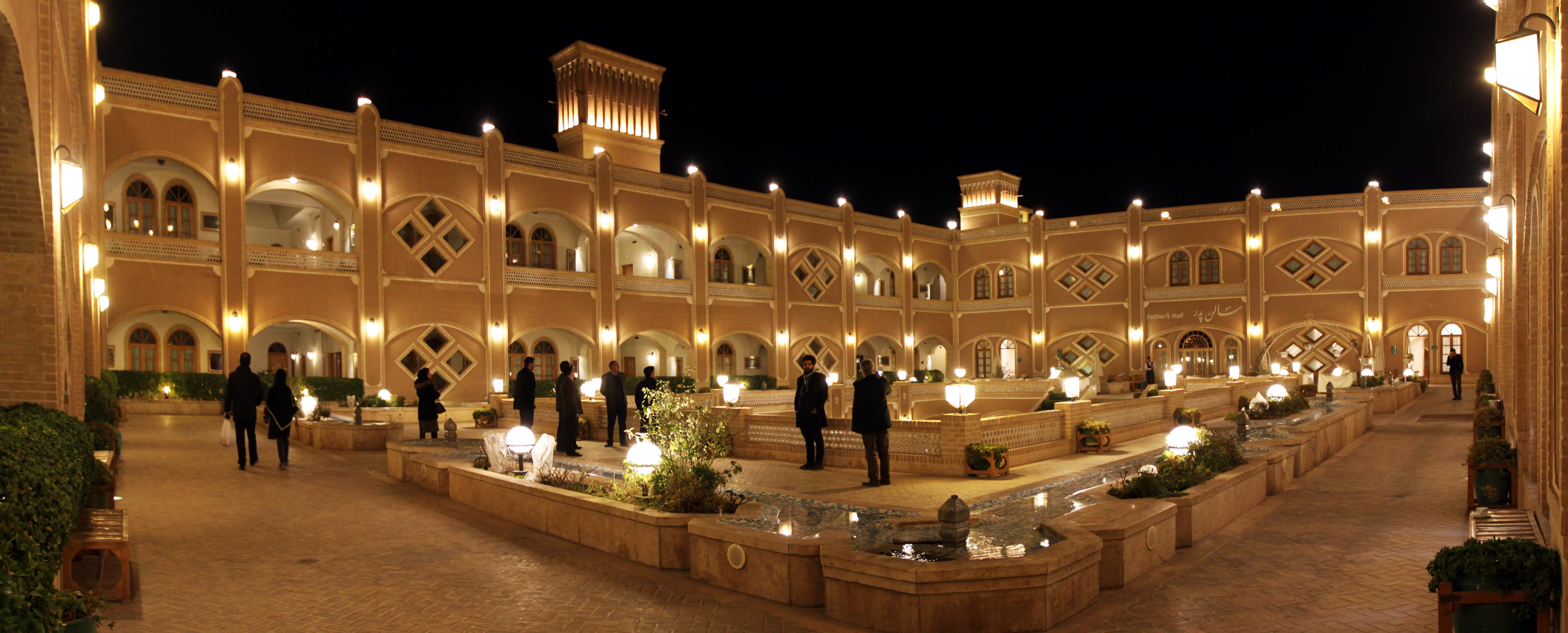 Photo by: Safa Daneshvar, February 6, 2019, Canon